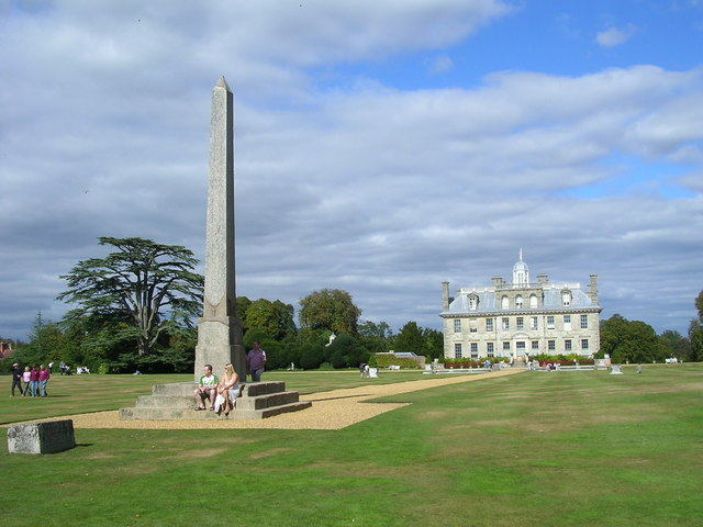 Kingston Lacy House